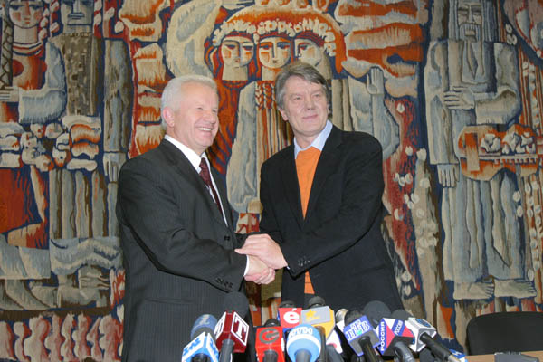 O. Moroz, leader of Ukrainian socialist Party, and V. Yushchenko, opposition leader, between preliminary and runoff votes in Ukraine 2004